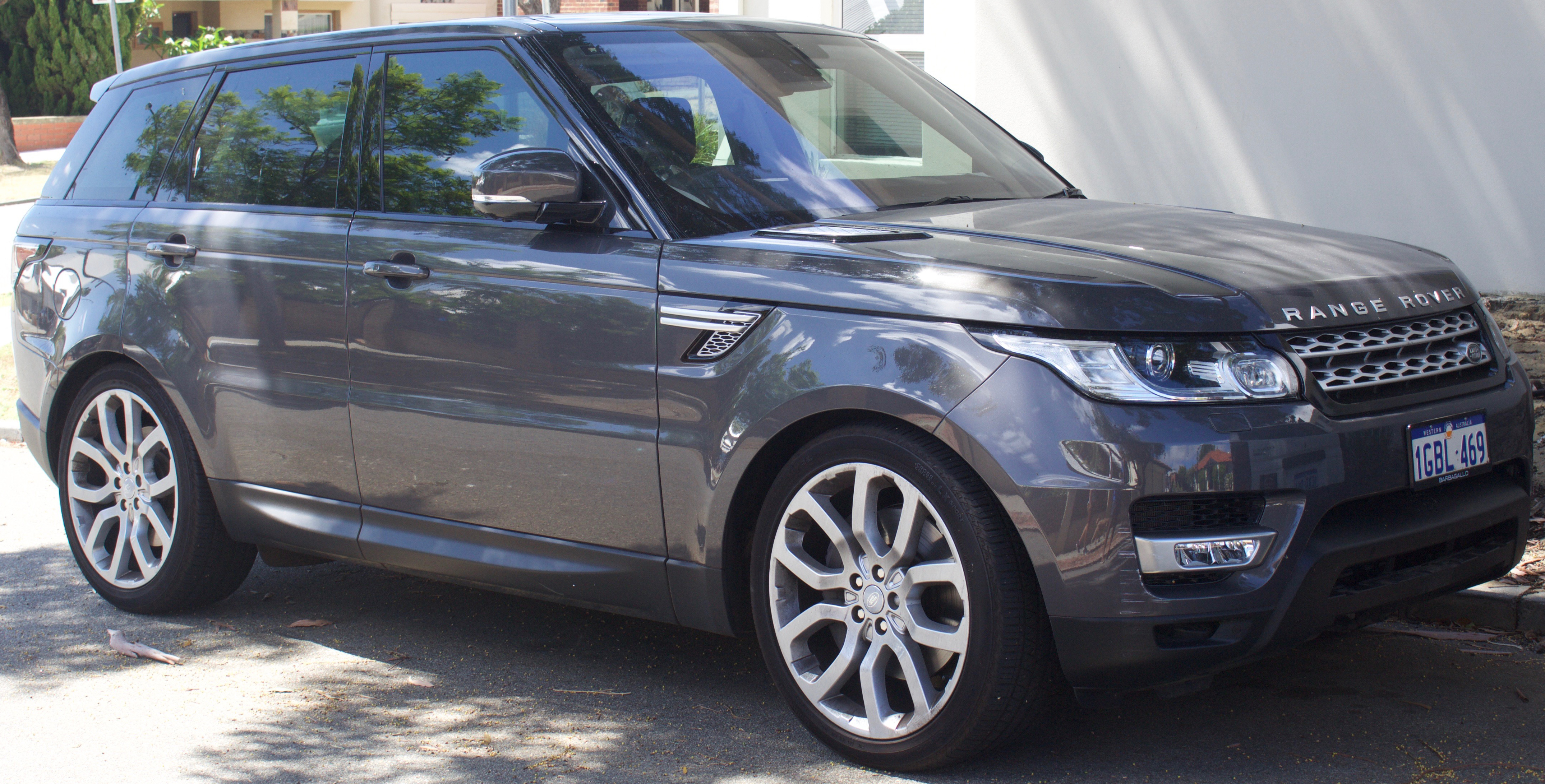 2016 Land Rover Range Rover Sport (L494 MY16.5) HSE SDV6 wagon. Photographed in West Leederville, Western Australia, Australia.